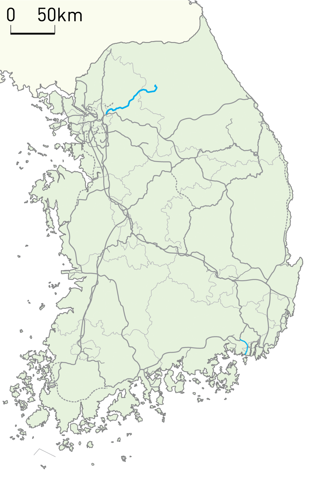 Korail Gyeongchun Line Routemap